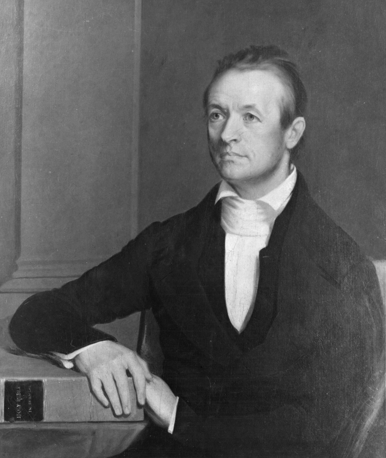 Adoniram Judson, oil on canvas, size: 25 1/2